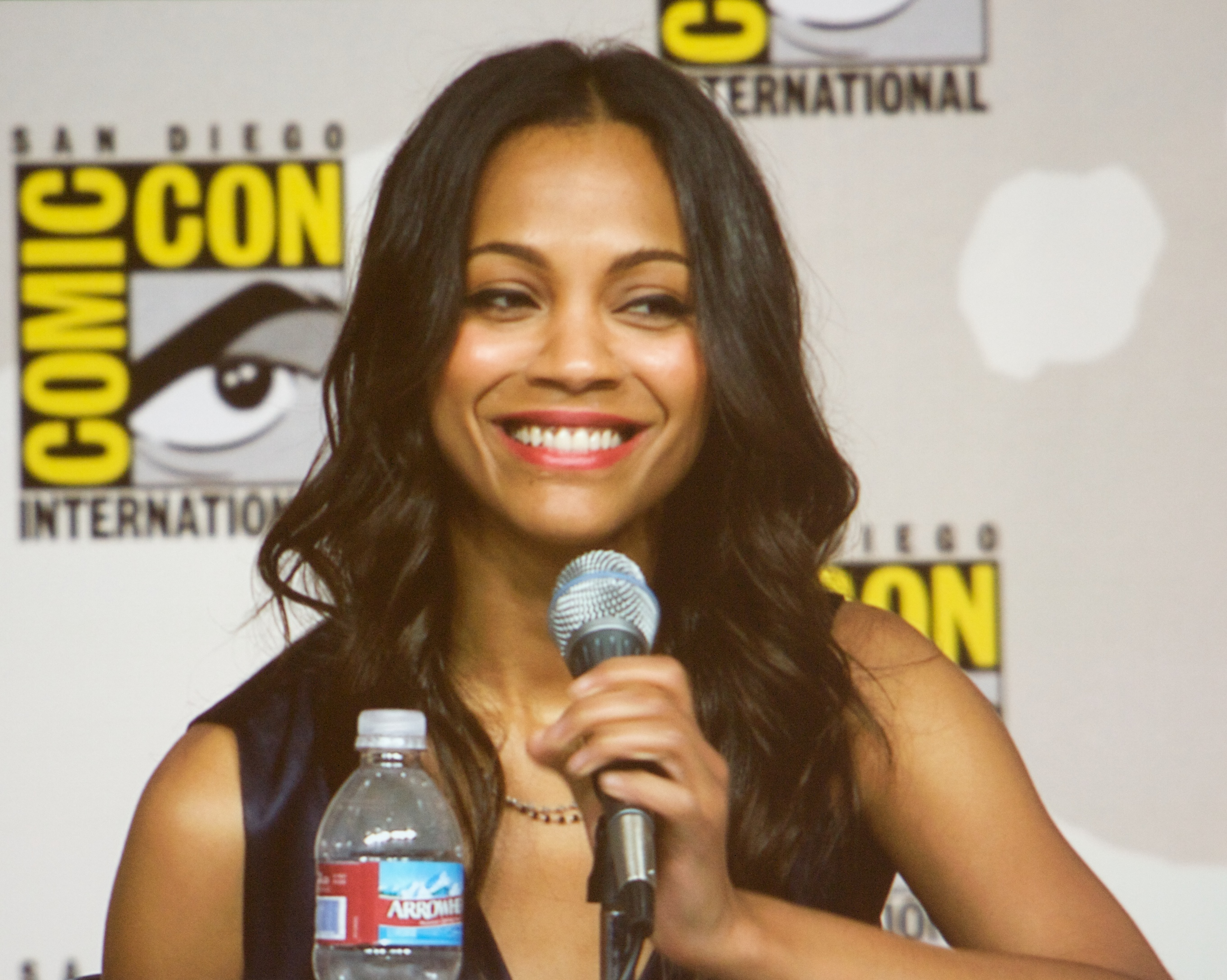 Zoe Saldaña at the "Entertainment Weekly: Wonder Women: Female Power Icons in Pop Culture" panel. Comic-Con 2009.